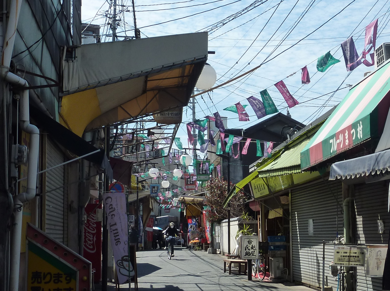 Kokai Street (Kumamoto City, Japan)